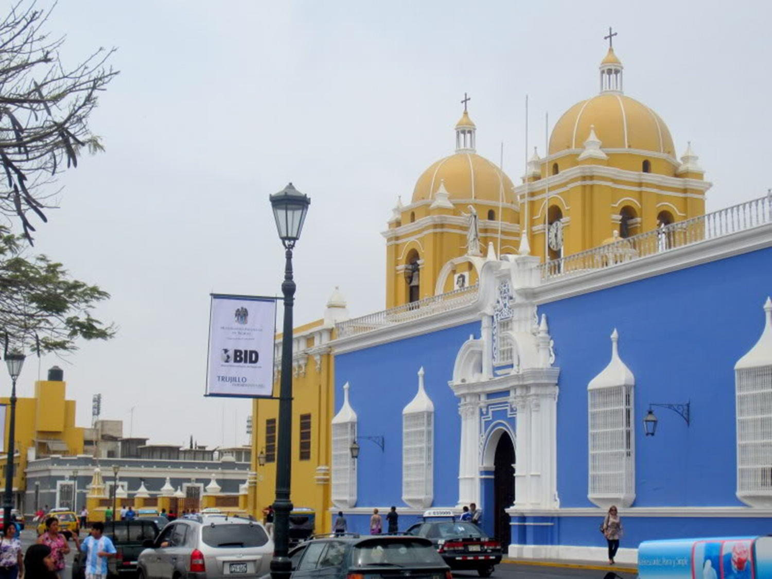 Arzobispado De Trujillo